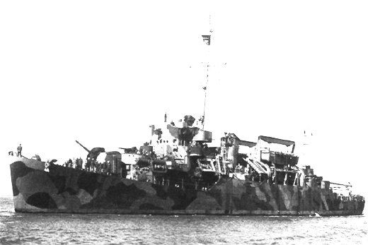 The U.S. Navy high-speed transport USS Yokes (APD-69) underway, circa in 1945.